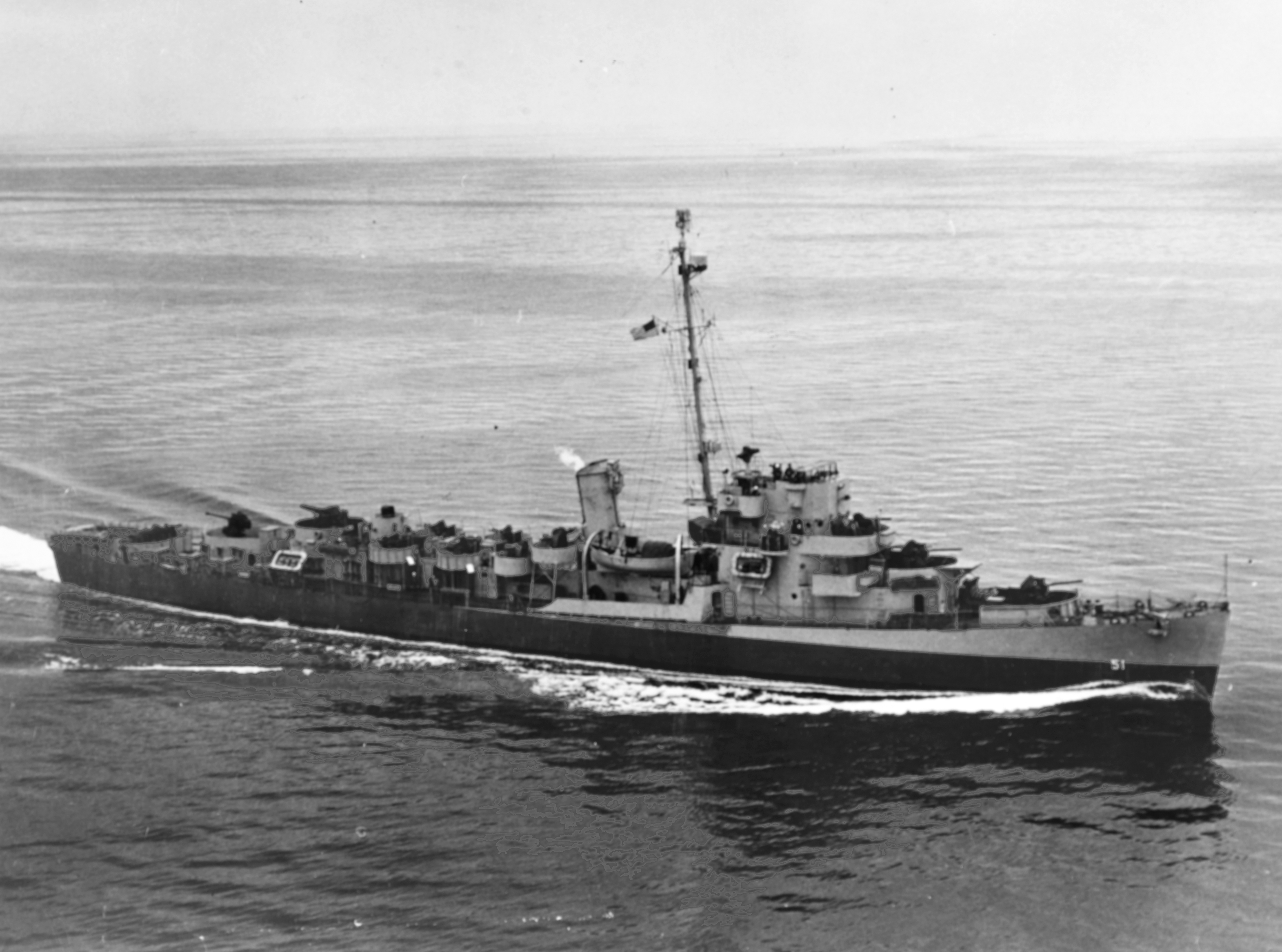 The U.S. Navy destroyer escort USS Buckley (DE-51) underway in the Atlantic Ocean off Boston, Massachusetts (USA), on 10 June 1944.